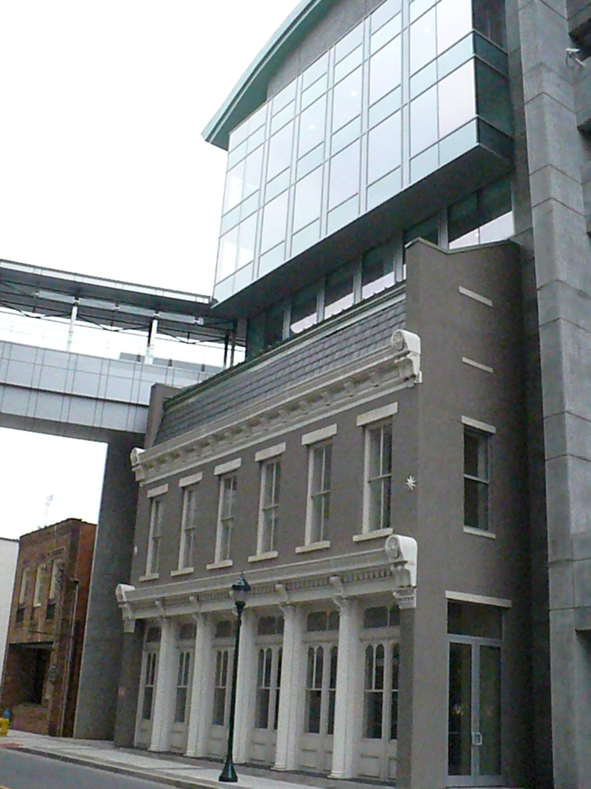 The facade of the Coley Building in Mobile, Alabama. On the National Register of Historic Places. Originally built in the Federal style in 1835, it was remodeled in the 1870s with a new Beaux-Arts facade. It was demolished in 2003 to make way for a parking deck, the facade was later reconstructed and merged into the new parking deck facade.